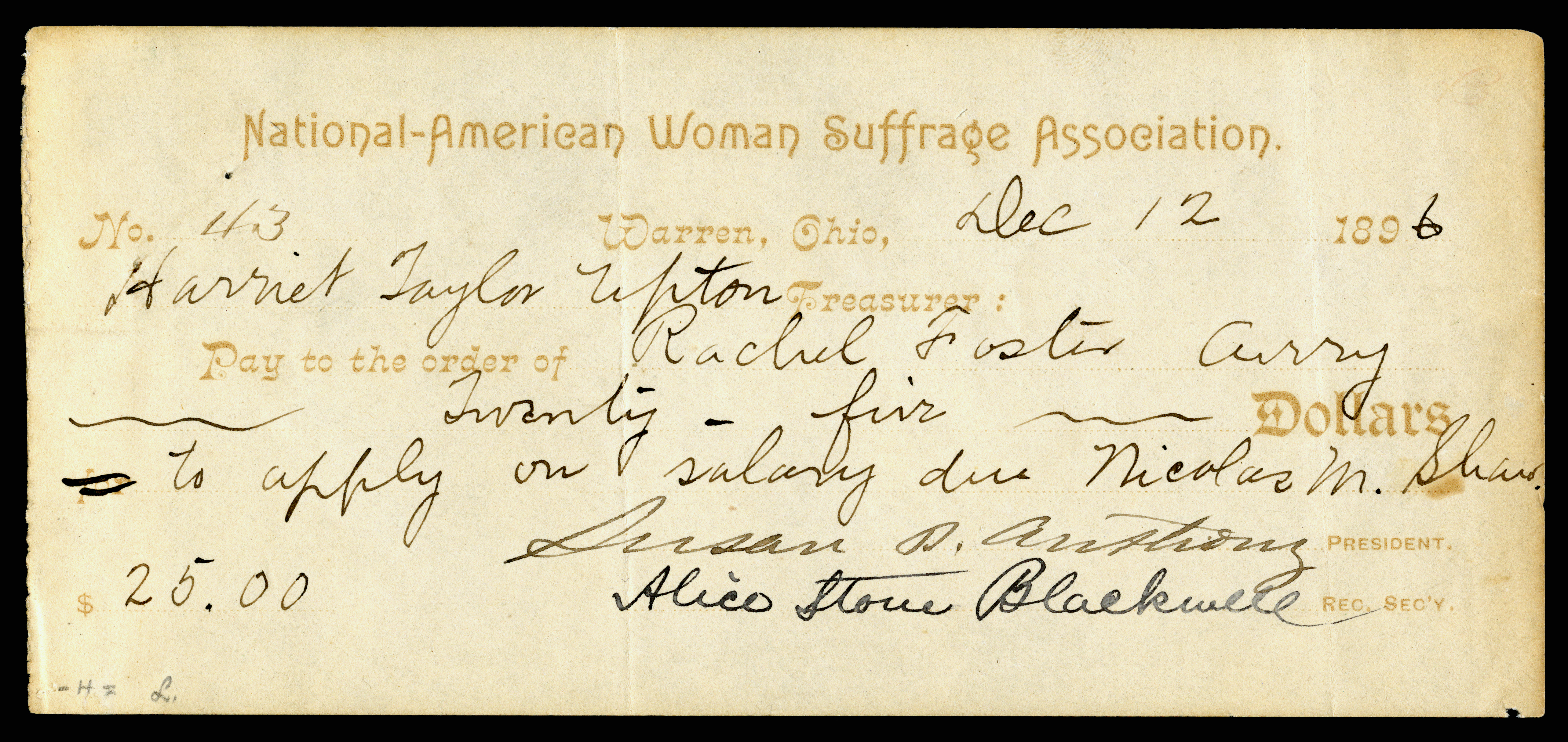 National American Woman Suffrage Association check, hand-written by Harriet Taylor Upton as the Association's treasurer and counter-signed by Susan B. Anthony as president, and Alice Stone Blackwell as recording secretary. Payee is Rachel Foster Avery.